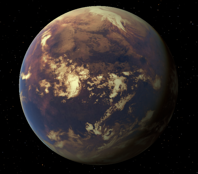 HD 4308 b, hot "Super-Earth" planet.